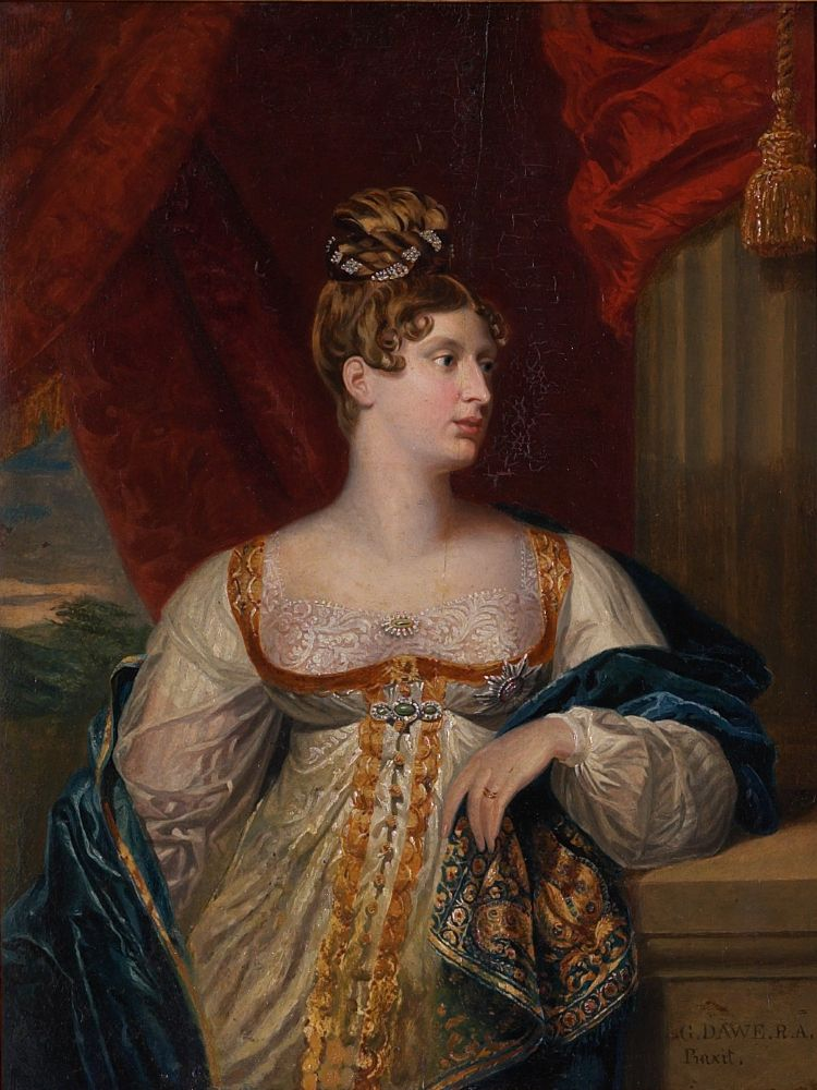 Princess Charlotte Augusta of Wales, heiress presumptive of the British crown